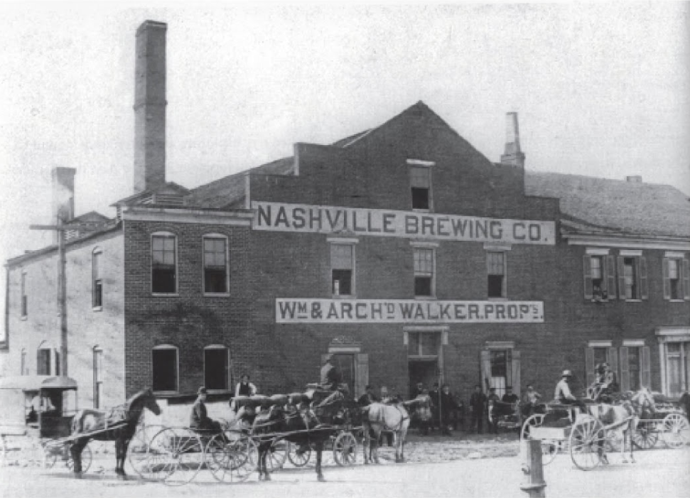 Nashville Brewing Company photograph from One Hundred Years of Brewing: A Complete History of the Progress Made in the Art, Science and Industry of Brewing During the Nineteenth Century (1903), p. 448.